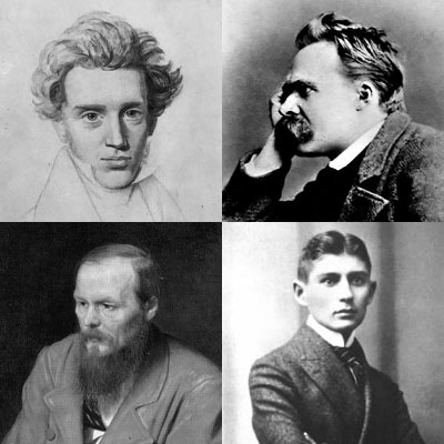 A collage of four precursors of Existentialism. From top-left clockwise: Søren Kierkegaard (1813-1855) Friedrich Nietzsche (1844-1900) Franz Kafka (1883-1924) Fyodor Dostoevsky (1821-1881) Public domain due to age of portrait/photography.